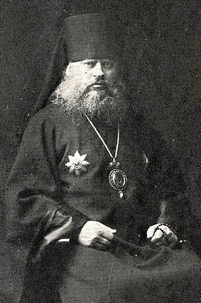 Russian Orthodox archibishop Platon (Rozhdestvensky)